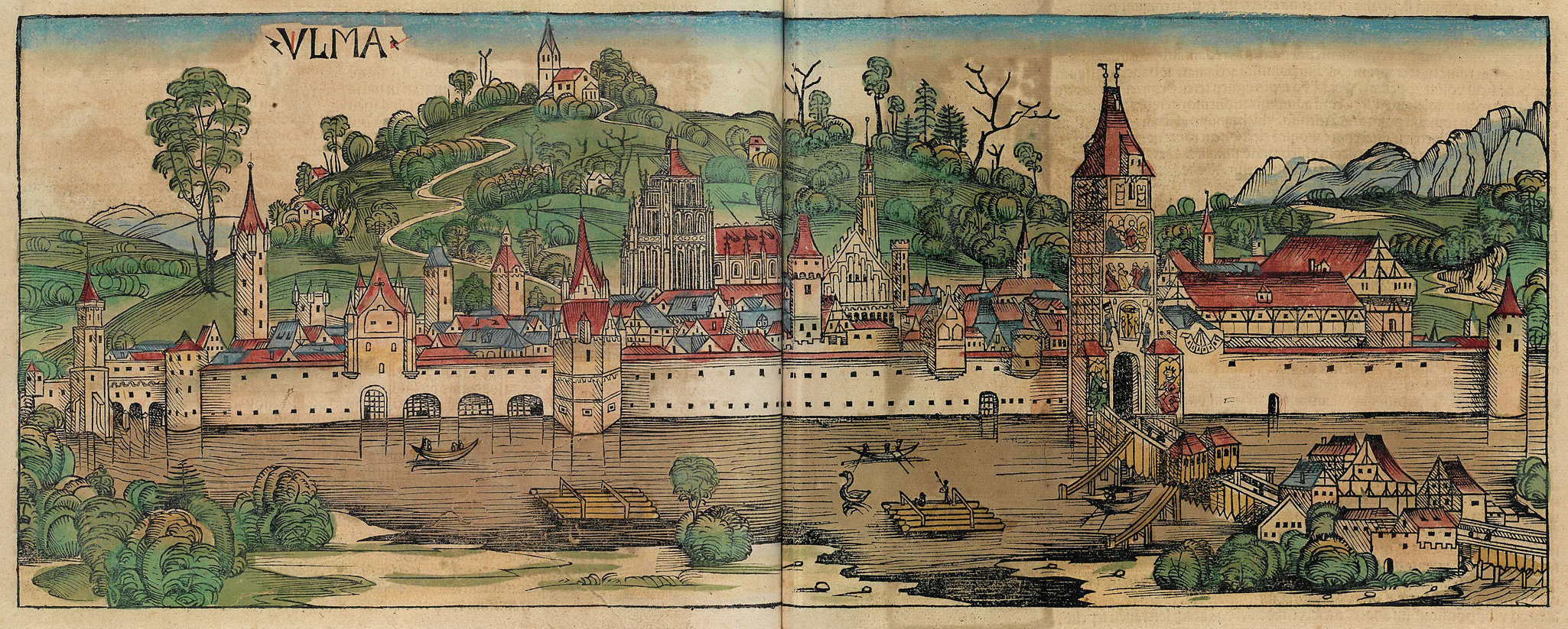 Woodcut of Ulm from the Nuremberg Chronicle